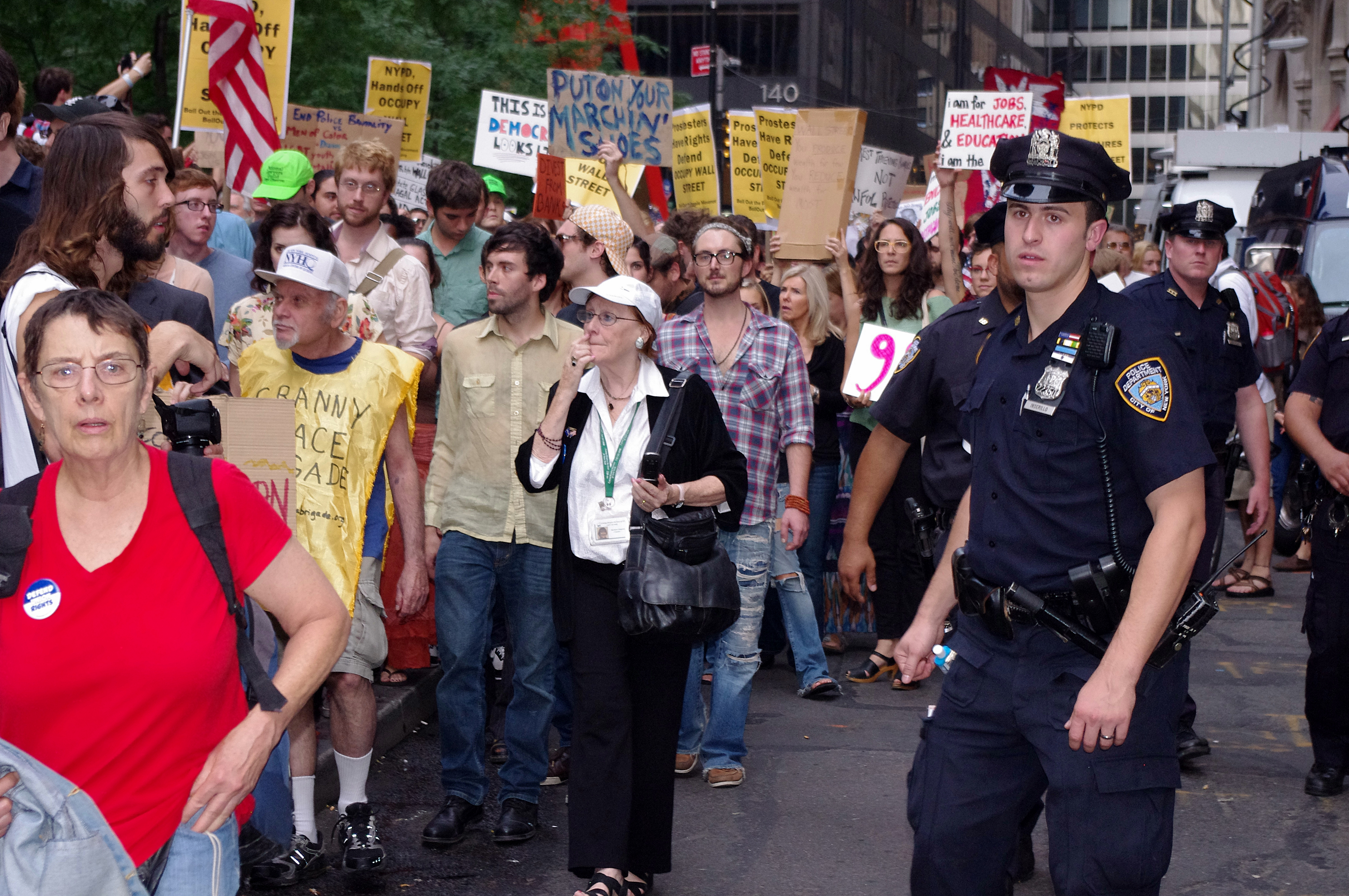 Friday, Day 14 of Occupy Wall Street - photos from the camp in Zuccotti Park and the march against police brutality, walking to One Police Plaza, headquarters of the NYPD.